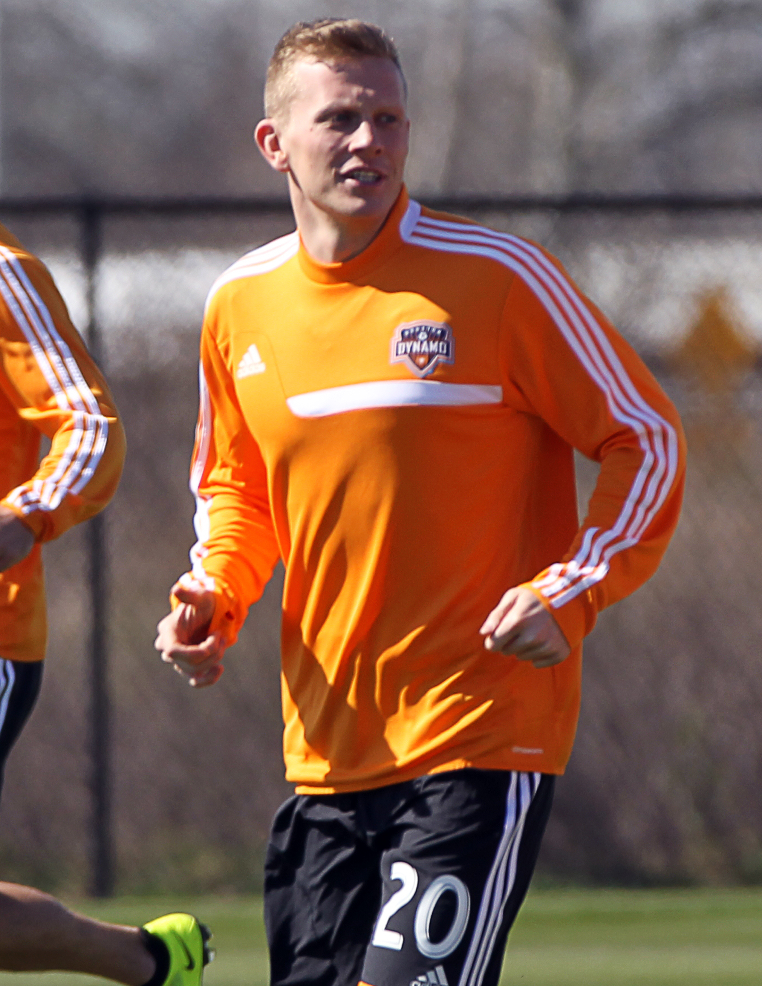 Andrew Driver, first day of training at US MLS club Houston Dynamo on loan from Hearts Of Midlothian F.C., Scottish Premier League